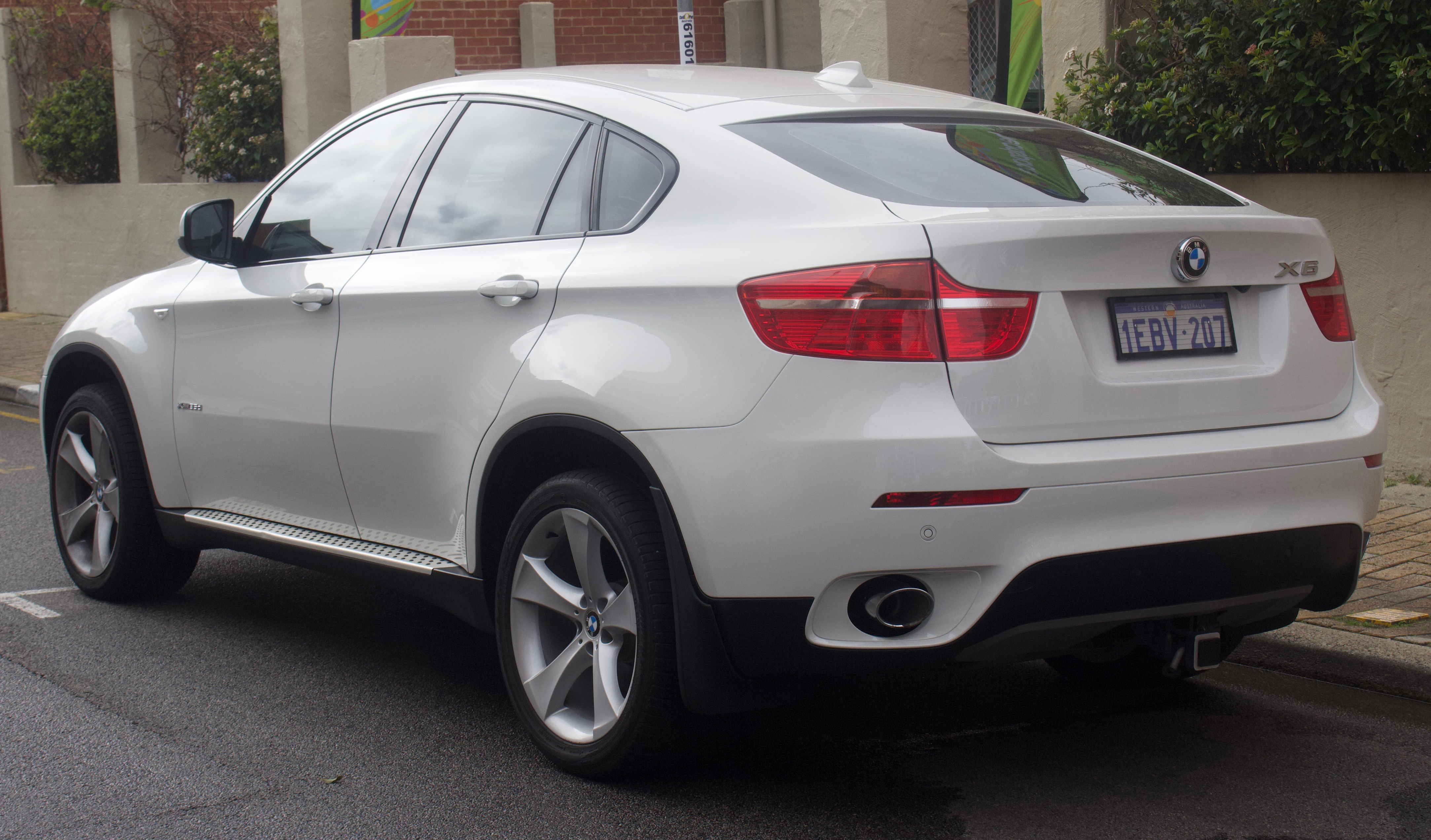 2008-2012 BMW X6 (E71) xDrive35d wagon. Photographed in Fremantle, Western Australia, Australia.